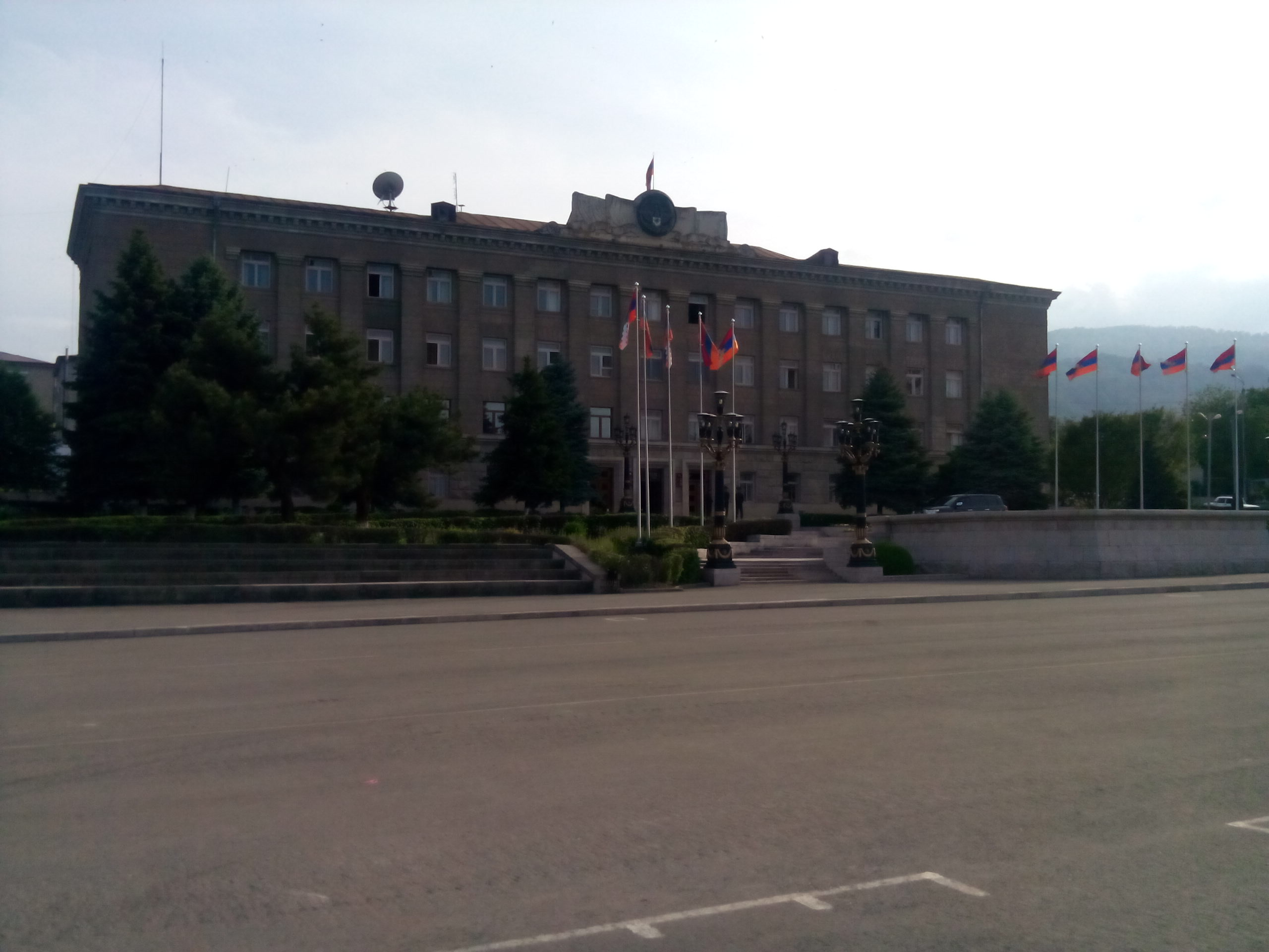 The parliament of Nagorno Karabakh in Stepanakert